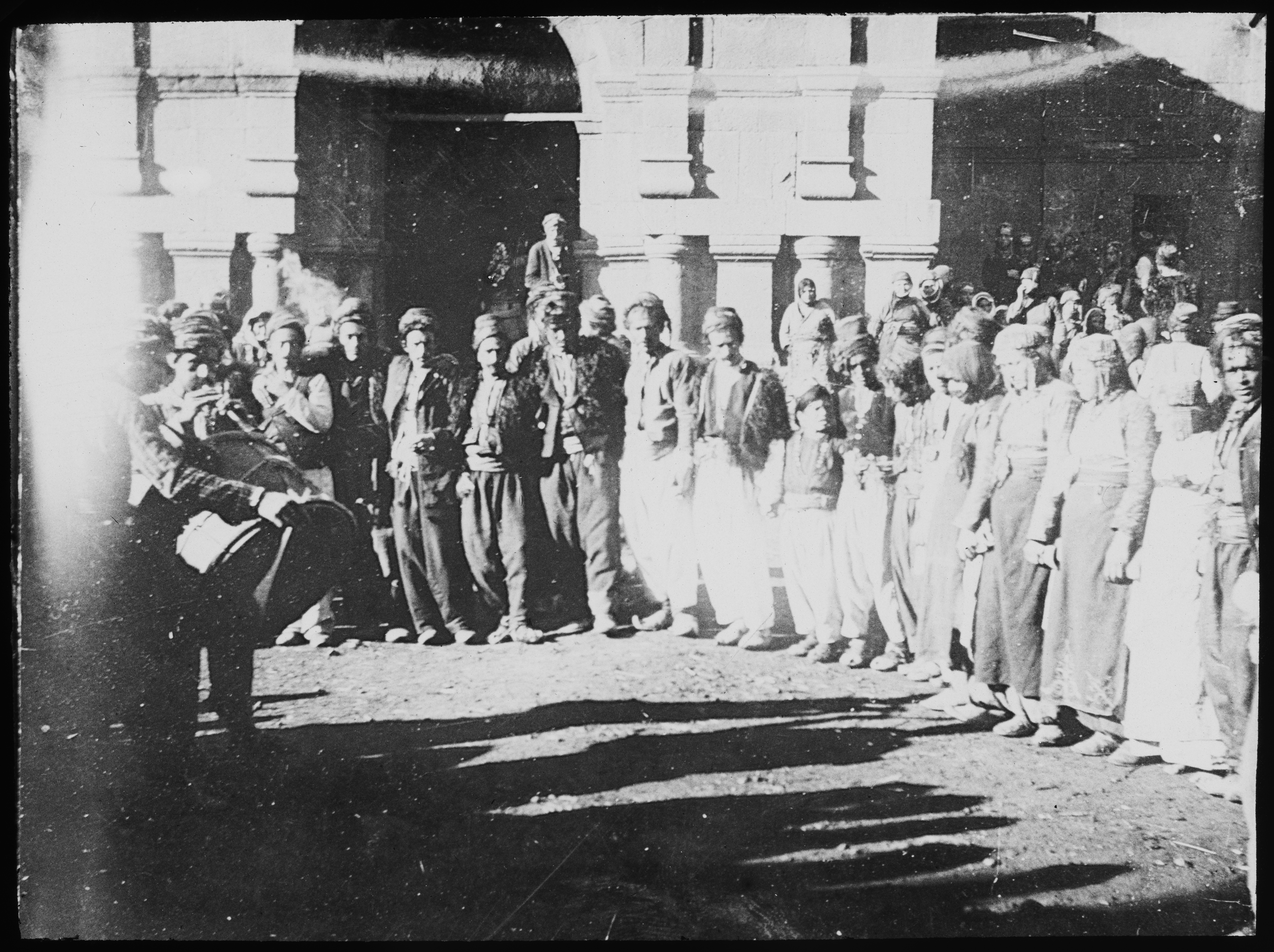 The photo has been retrieved from the National Archival Service of Norway. The photo is part of a series of reversal film photos from Bodil Biørn, a Norwegian missionary, humanitarian, nurse and midwife. She was engaged in humanitarian work in Armenia and Syria, amongst other places, through the association Kvinnelige Misjonsarbeidere. Original caption (translated): Party at Surb Karapet Monastery